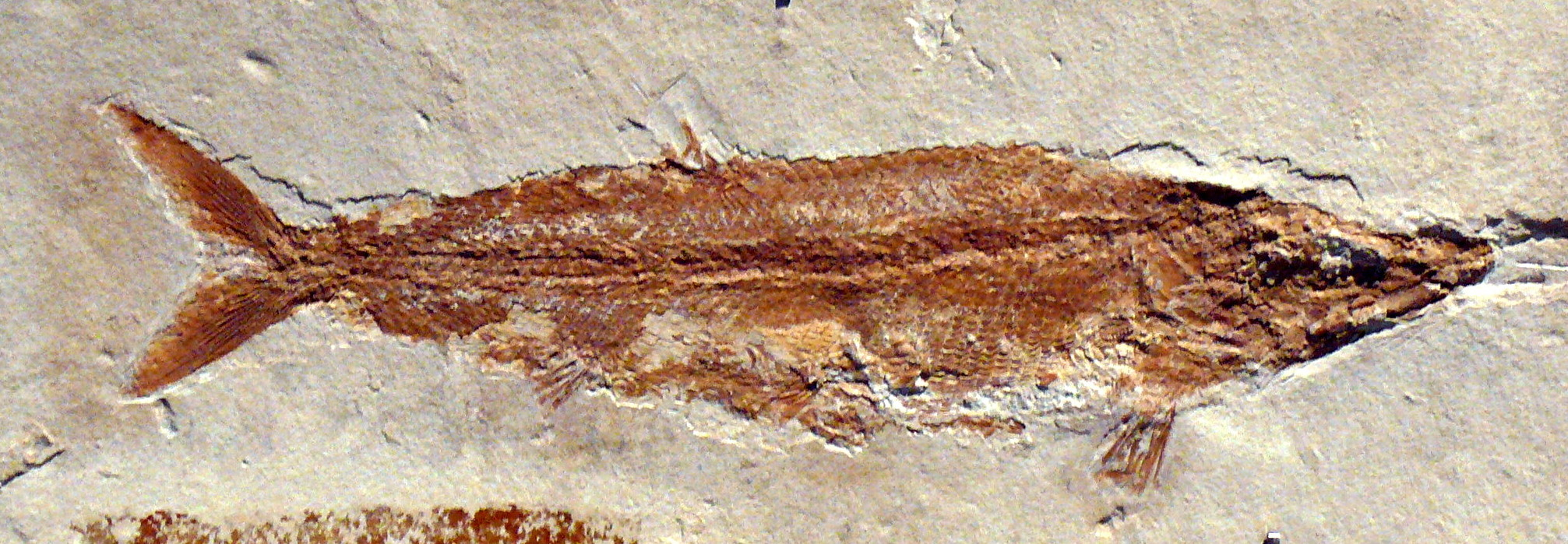 Furo microlepidotus from Solnhofen, Germany